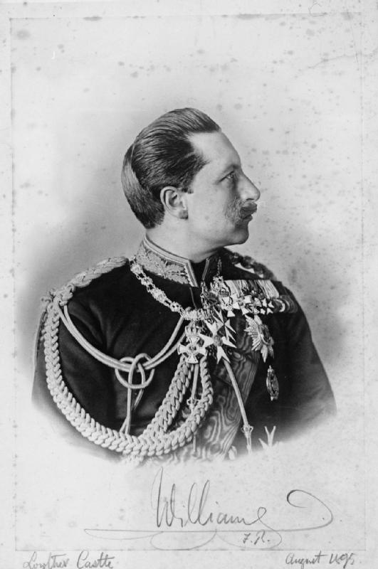 Germany Before the First World War 1890 - 1914 Head and shoulders portrait of Kaiser Wilhelm II which was presented to Hugh, 5th Earl of Lonsdale by the Kaiser in commemoration of his visit to Lord Lonsdale's estate at Lowther Castle, Cumbria in August 1895. The portrait is signed and dated by the Kaiser.